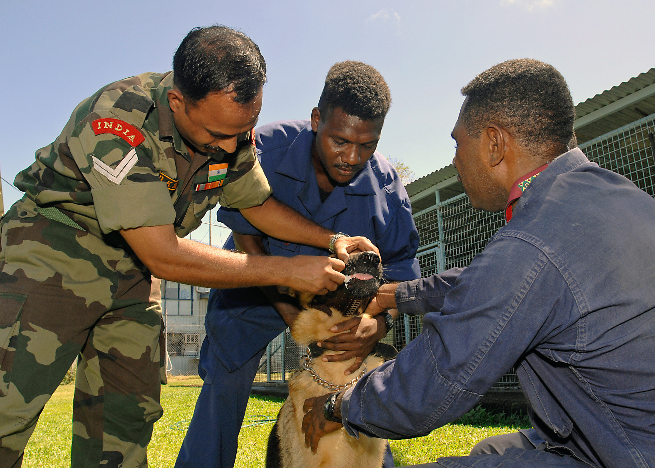 MADANG, Papua New Guinea (Aug. 14, 2007) - Indian army, Cpl. Dinesh K. Singh, a veterinarian technician, gives de-wormer medication to a German Shepherd with the local police canine unit. In support of Pacific Partnership, veterinary care was provided to the local police K-9 unit and security guard dogs that don't see regular care within the Madang area. Along with regional partners and non-governmental organizations, the Pacific Partnership team is providing the local community with a wide range of assistance. U.S. Navy photo by Mass Communication Specialist 3rd Class Bryan M. Ilyankoff (RELEASED)